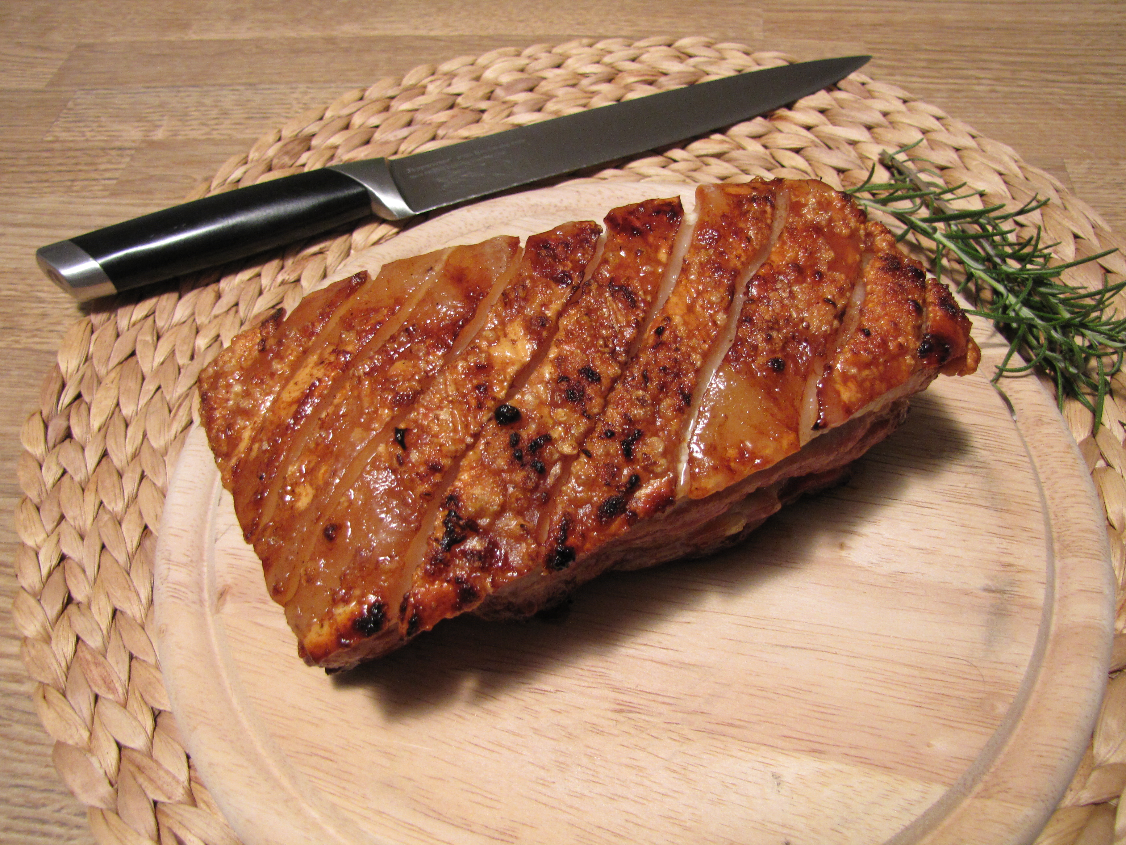 grilled pork belly